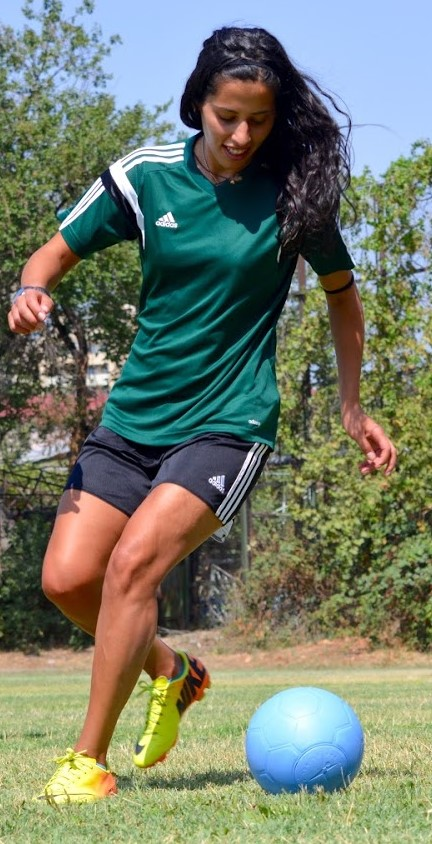 football